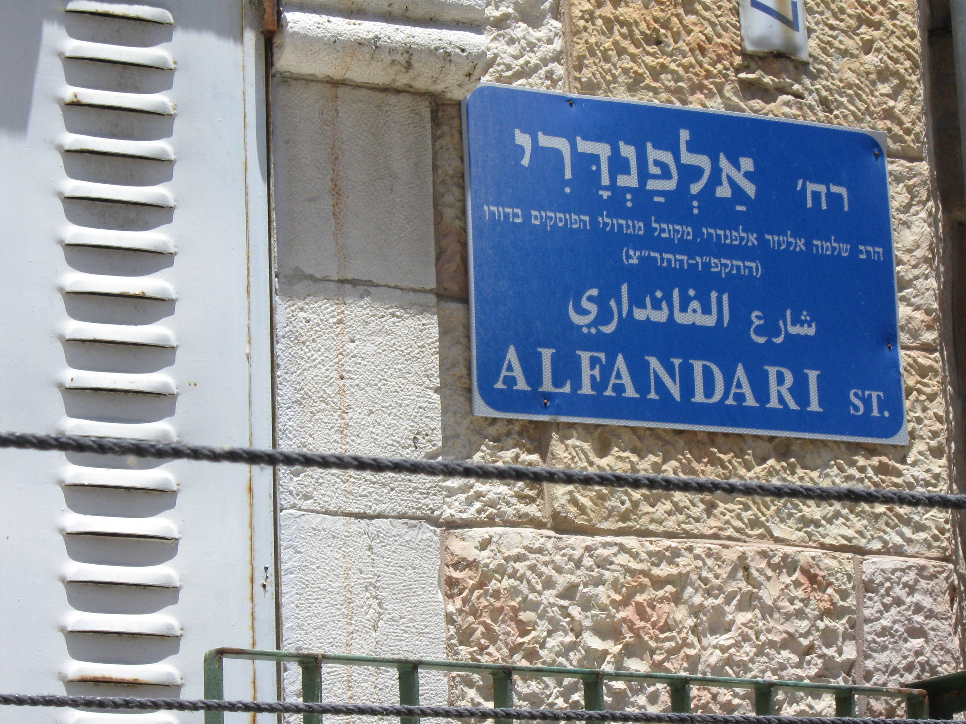 Street sign for Alfandari St., Mekor Baruch, Jerusalem, honoring Rabbi Solomon Eliezer Alfandari.